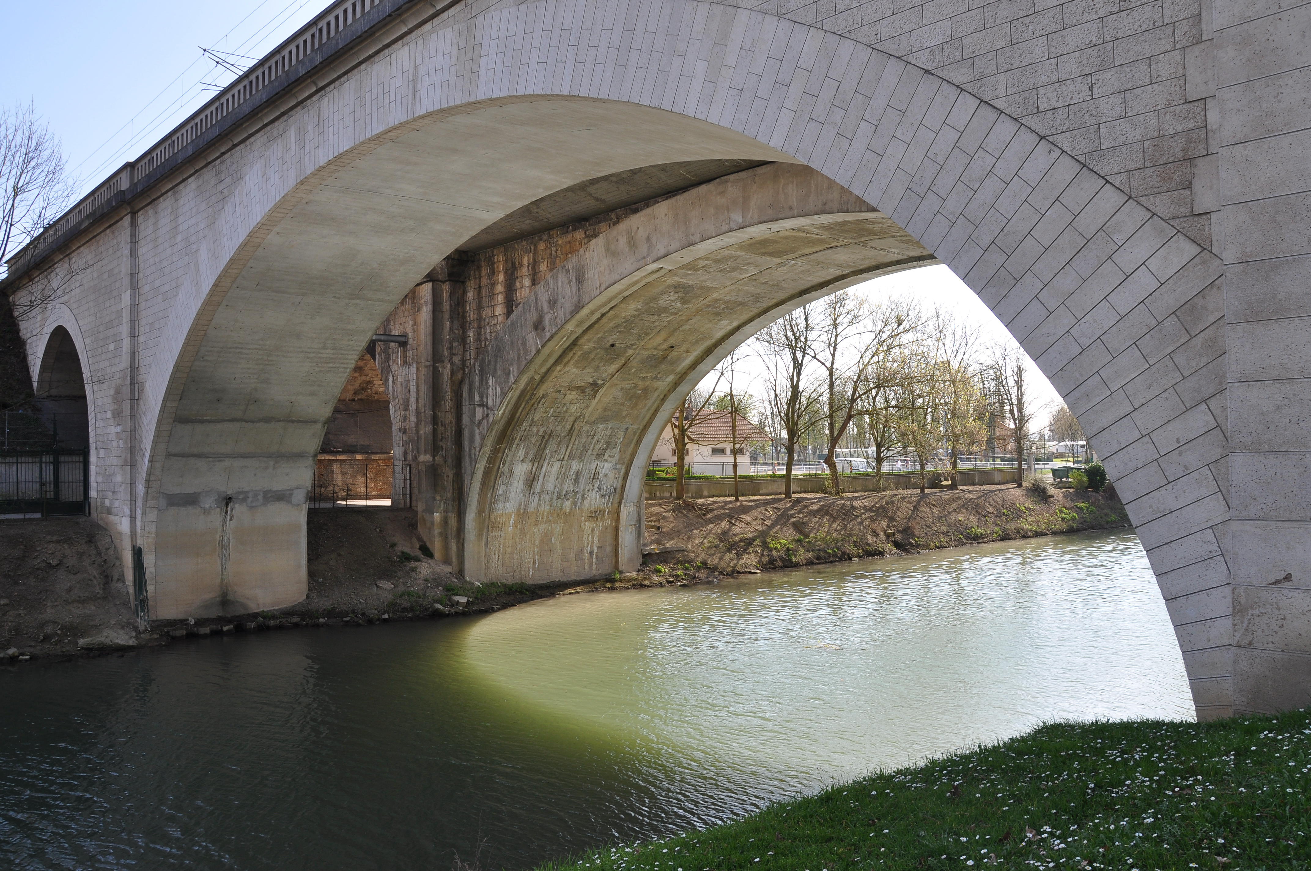 Railroad bridge of Maisons-Laffitte in Yvelines department, France.